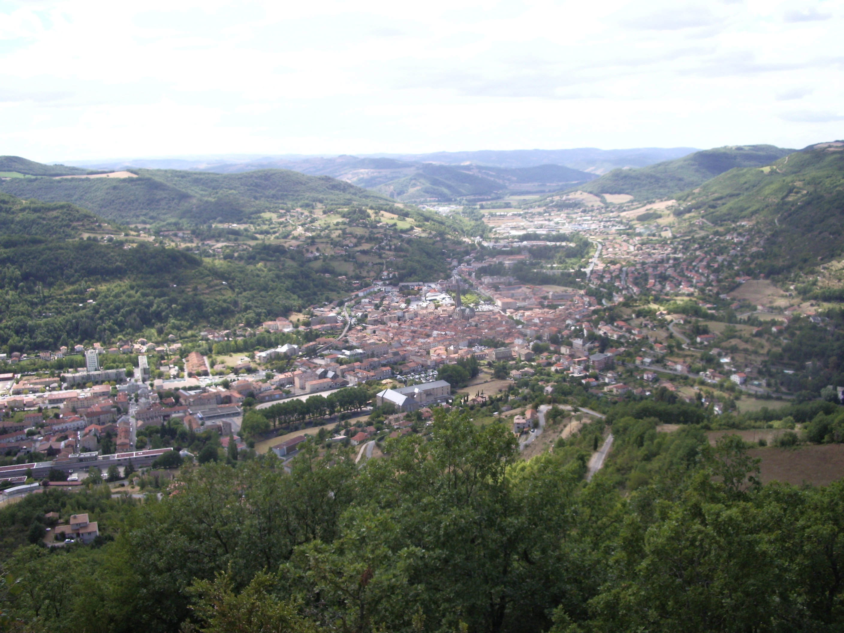 Panorama of Saint-Affrique taken from the mountain called La Quille (East)